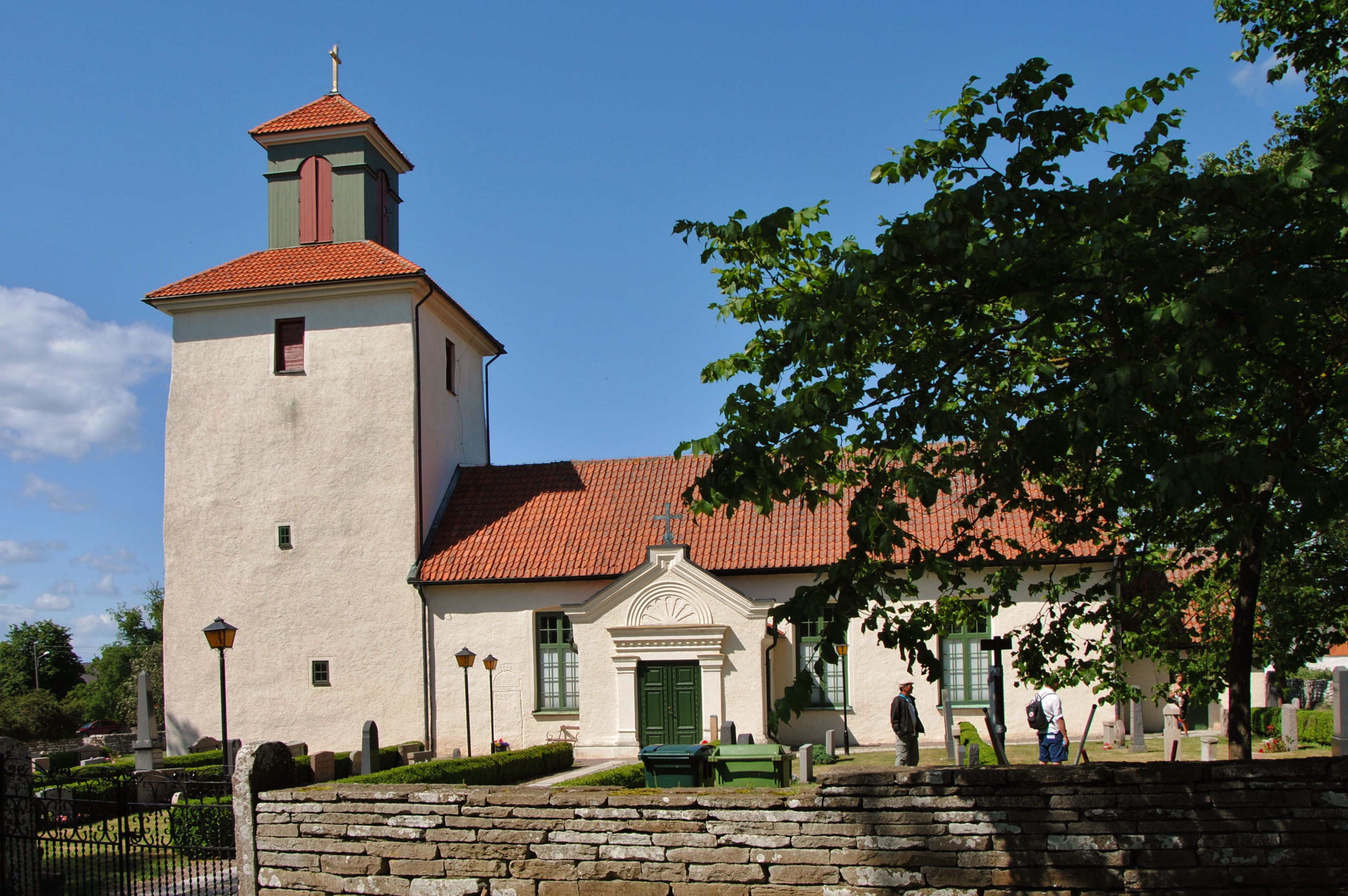 Ventlinge Church. The Church has medieval origins. 1812 was repaired and extended the church so that its medeltidsprägel was lost. The Builder was L. P. It was converted to the aisleless Church, the original absidkoret was demolished, the nave was extended to the East and a sacristy was attached to östgaveln. Some later built the Tower's upper part about 1825 and was crowned with a lantern.